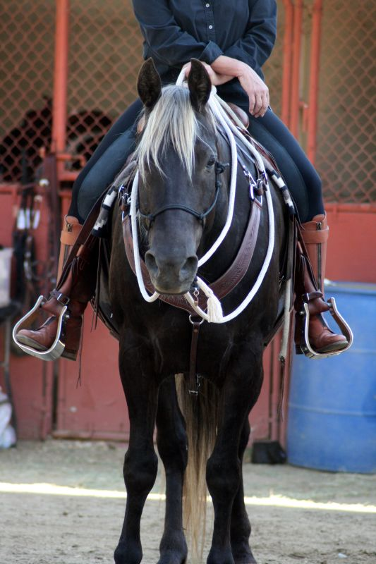 Rocky Mountain Horse